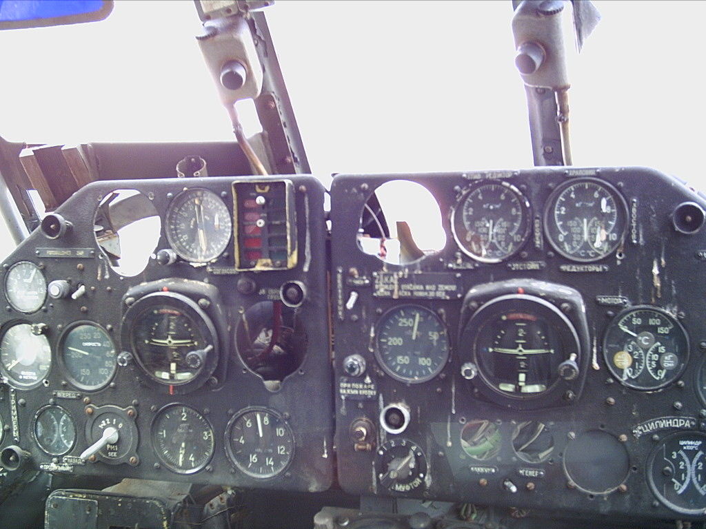 Mil Mi-4 cockpit, Kbely museum, Prague, Czech Republic